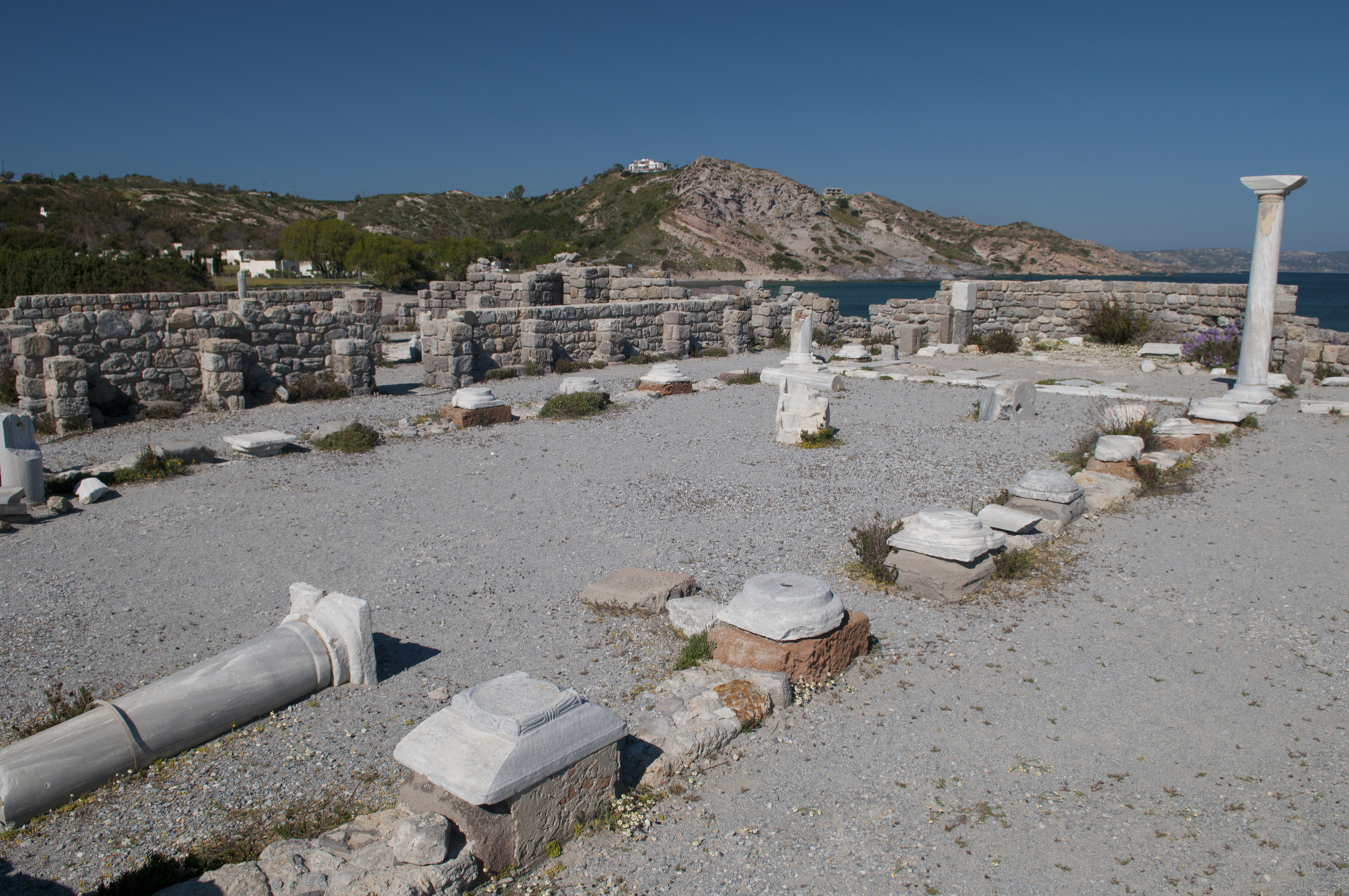 An early Christian basilica near Agios Stefanos beach in Kamari Bay of the Greek Island of Kos. There are the remains of two basilicas and they are dated to the 5th or 6th century.